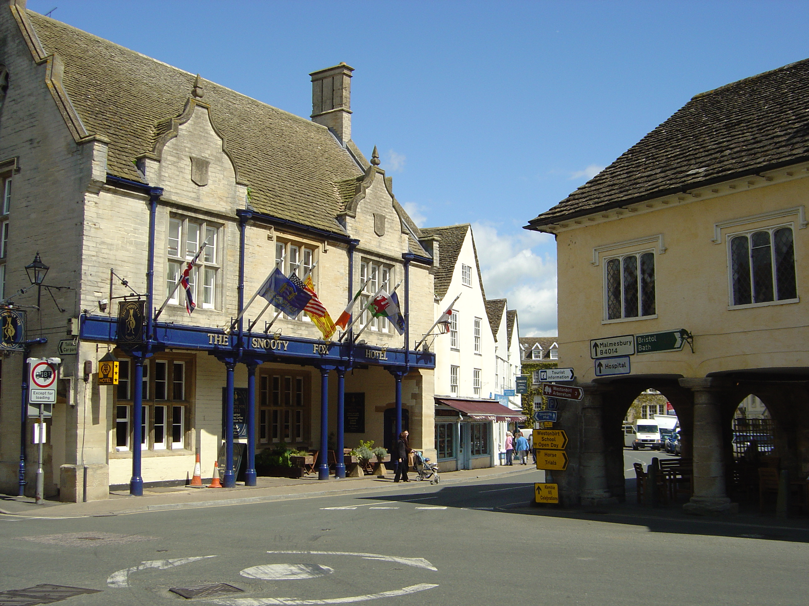 This photograph was taken by Tim Rogers on Saturday 7 May 2005.